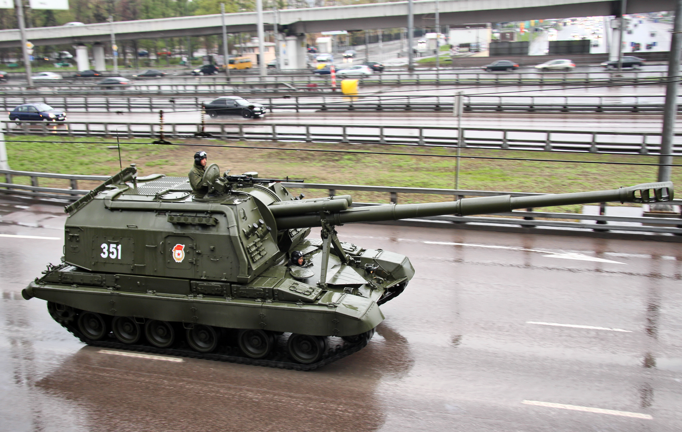 2011 Moscow Victory Day Parade